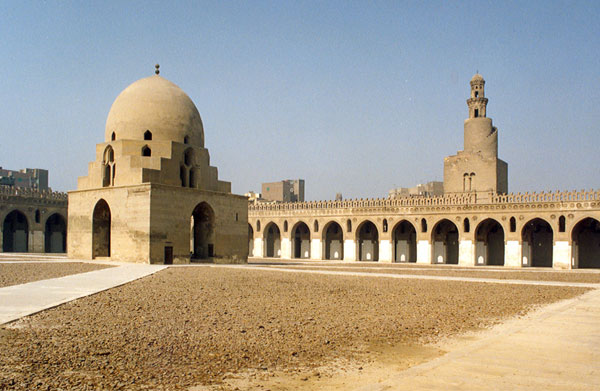 Ibn Tulun mosque. Cairo, Egypt